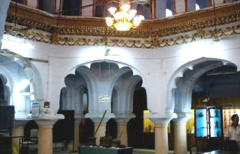 Chokkanatha Nayak Palace, Trichy.